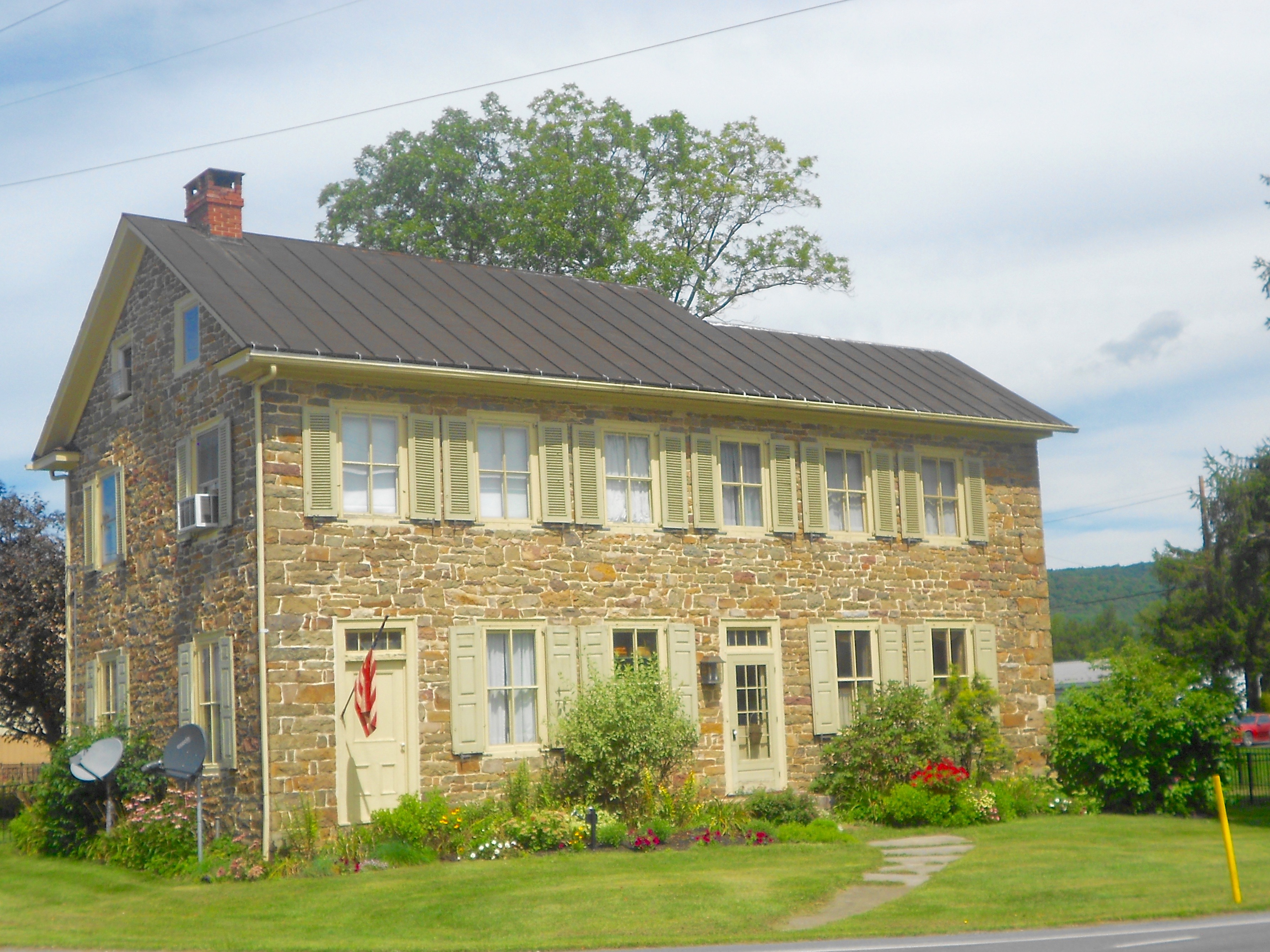 Simon Pickle Stone House, listed on the NRHP on April 18, 1977 (#77001144) At the NE corner of Pennsylvania Routes 192 and 445 at Madisonburg, Miles Township, Centre County, Pennsylvania. 40°55′24″N 77°30′54″W